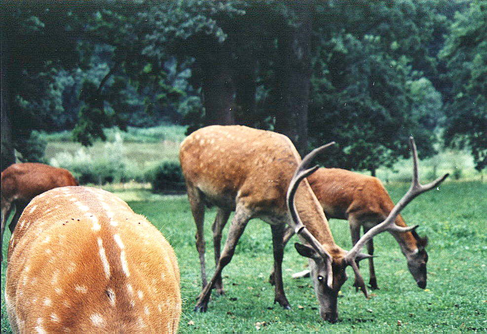 Wildlife in Vânători-Neamţ Natural Park, Romania